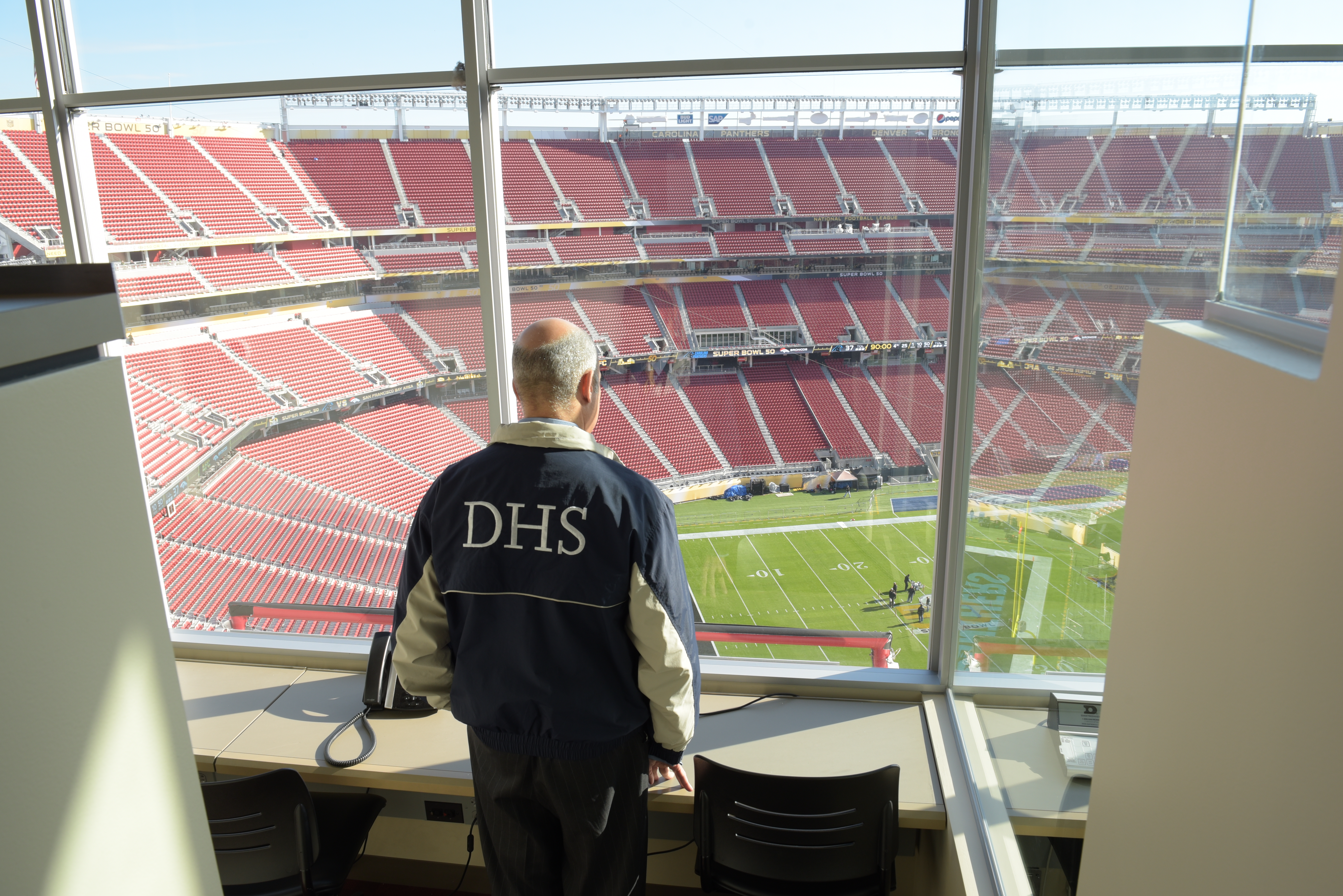 SAN FRANCISCO - Secretary of Homeland Security Jeh Johnson meets with local law enforcement officials and the National Football League security team to oversee the Department of Homeland Security security operations that will help ensure the safety and security of employees, players and fans during Super Bowl 50, Feb. 3, 2016. Additionally, Secretary Johnson delivered remarks in a news conference to discuss security ahead of the Super Bowl. Official DHS photo by Jetta Disco.